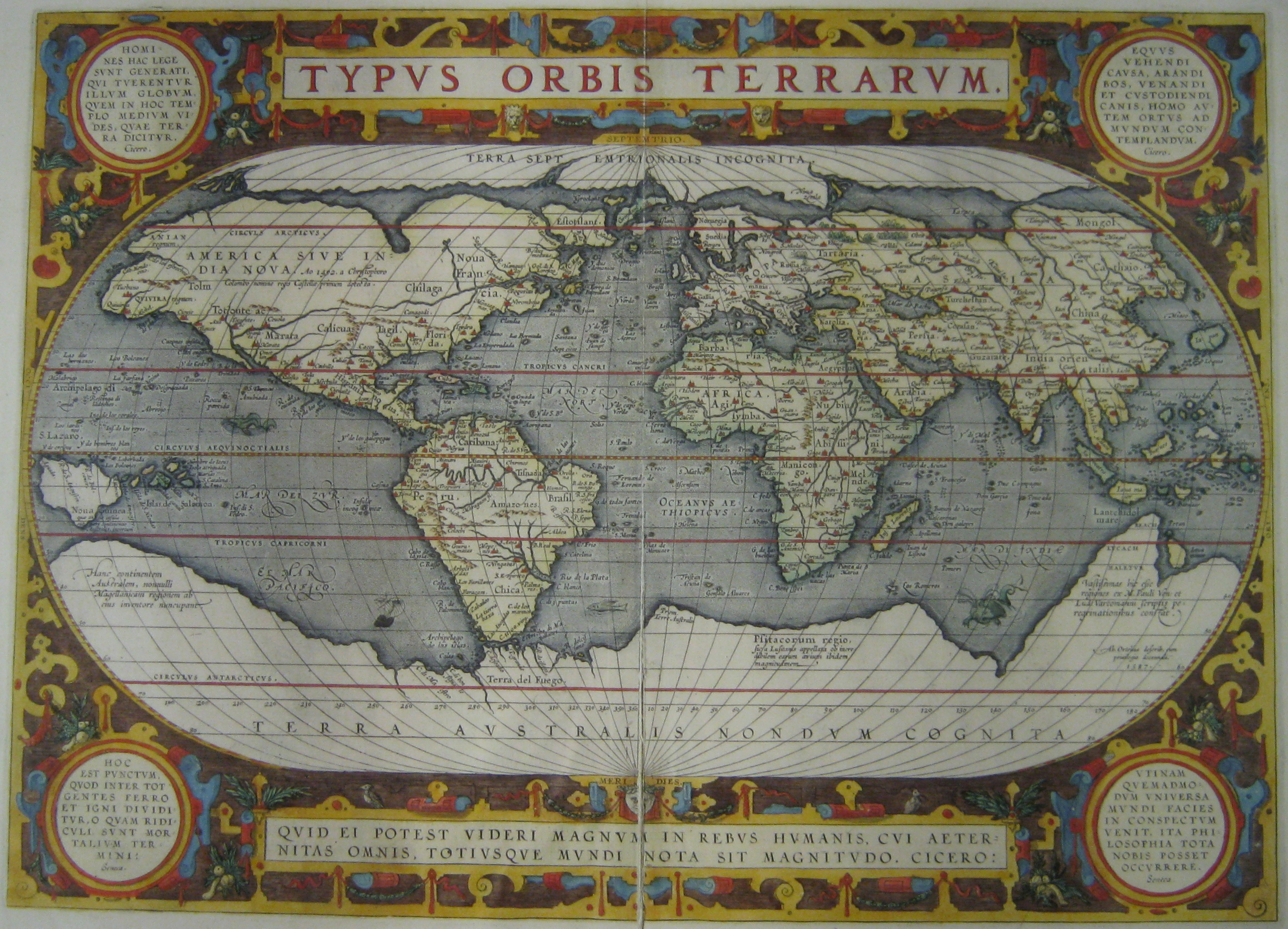 World Map, 1595. A quotation from Cicero on the lower margin: Quid ei potest videri magnum in rebus humanis, cui aeternitas omnis, totiusque mundi nota sit magnitudo.